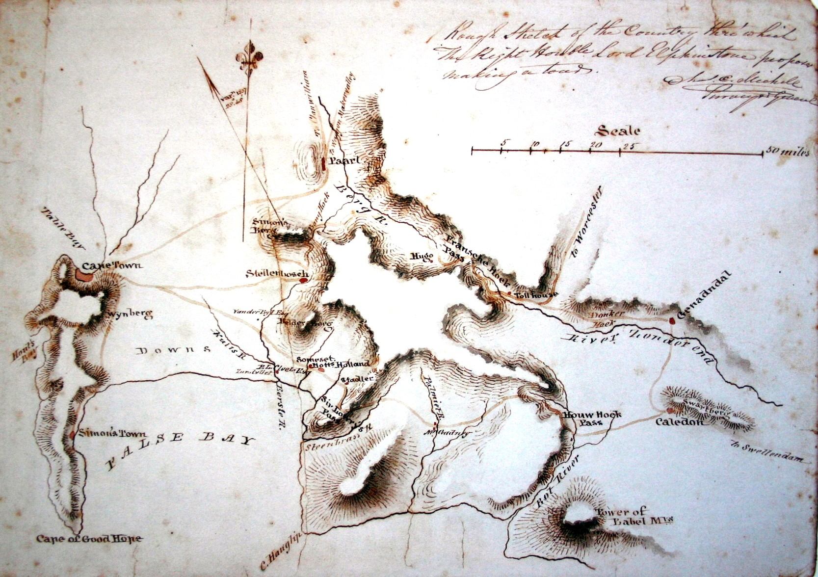 "Rough Sketch of the Country through which the Right Honourable Lord Elphinstone proposes making a tour". Pen and wash